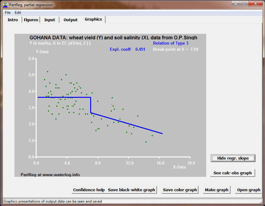 Partial regression to detect a tolerance level